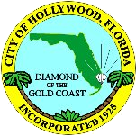 The official city seal of Hollywood, Florida.